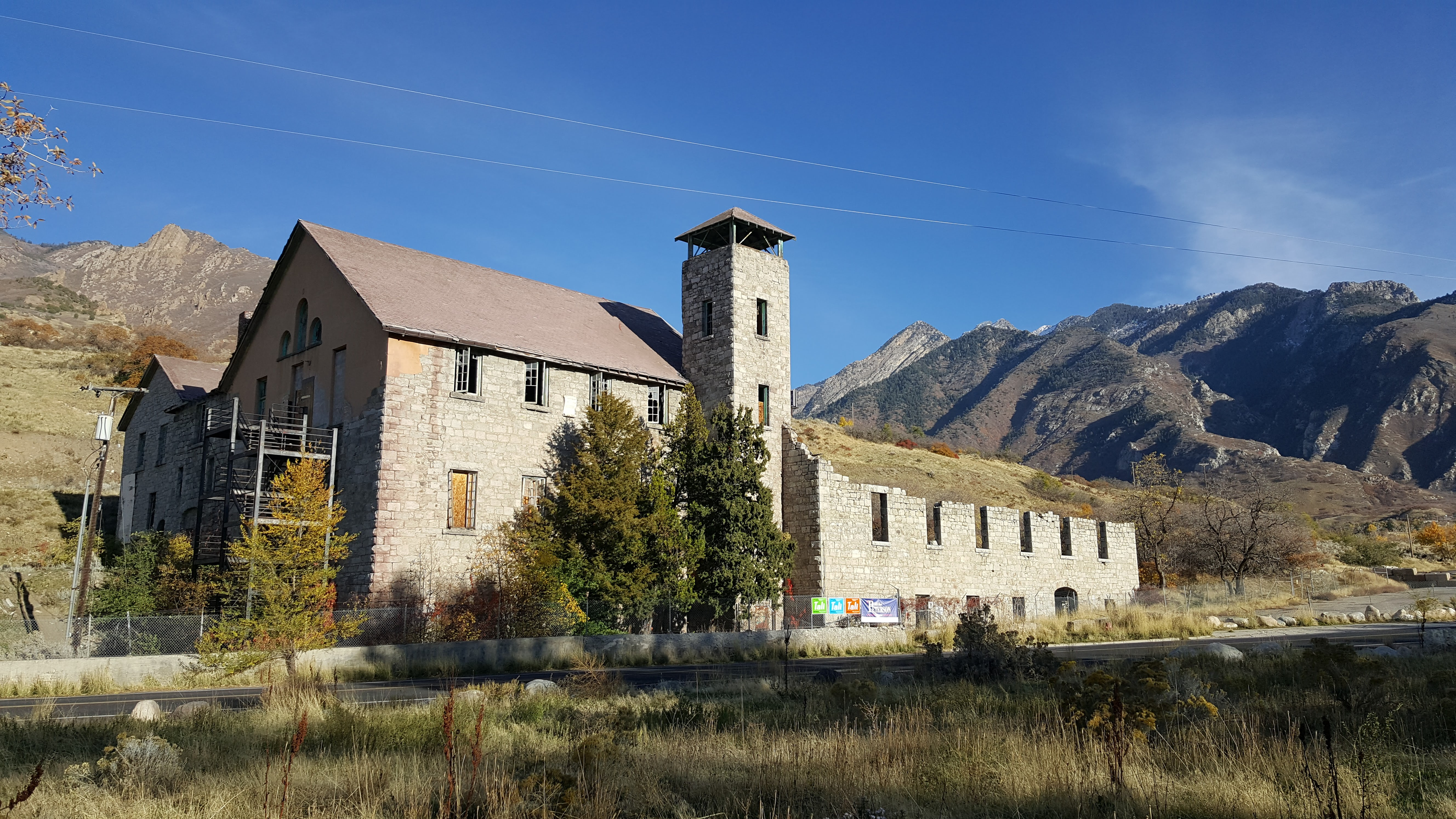 The Cottonwood Paper Mill from an angle closer to what was used in the 1869 photo, before the fire.